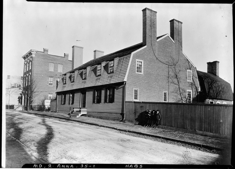 Significance: An excellent example of 18th century Annapolis architecture. - Survey number: HABS MD-259